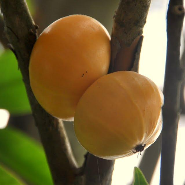 Cambucá Fruits